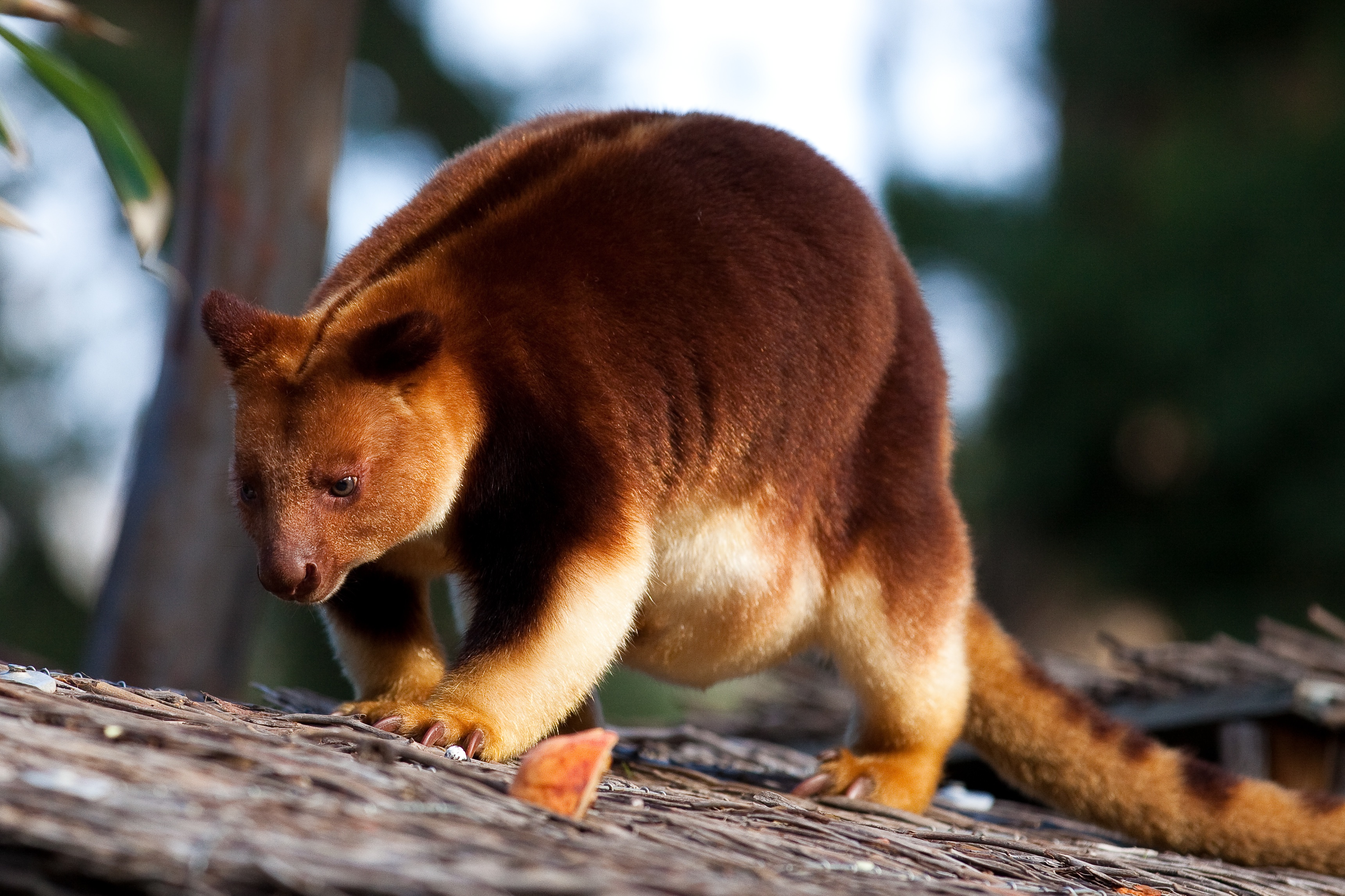 A Goodfellow's Tree-kangaroo at Melbourne Zoo, Australia. The zoo have them idenified as Dendrolagous goodfellowi buergersi.